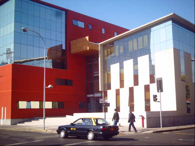 Technical Education Department of Arturo Prat University, Santiago campus